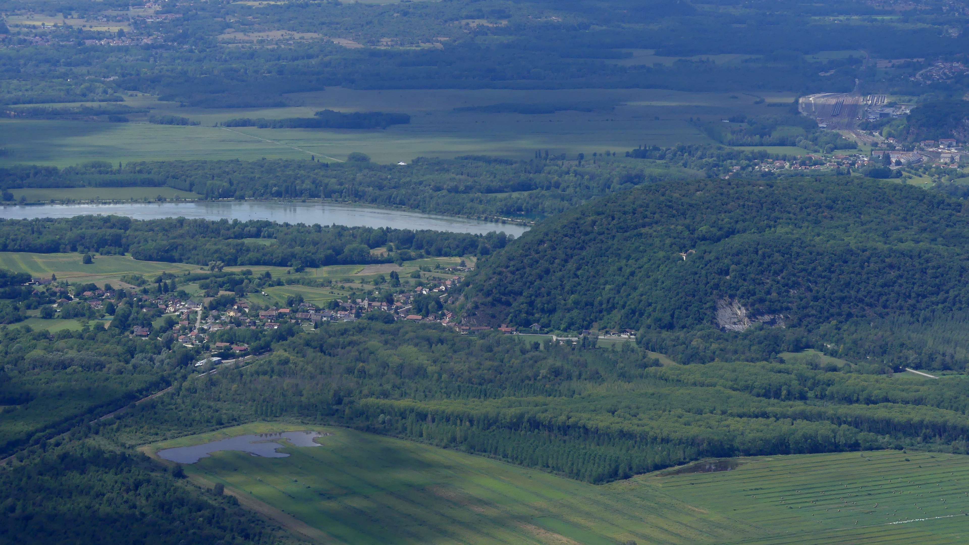 Sight, from around Le Sapenay pass, of Vions village, Mollard de Vions hill and Rhône river, in Savoie and Ain on the opposite side, France.